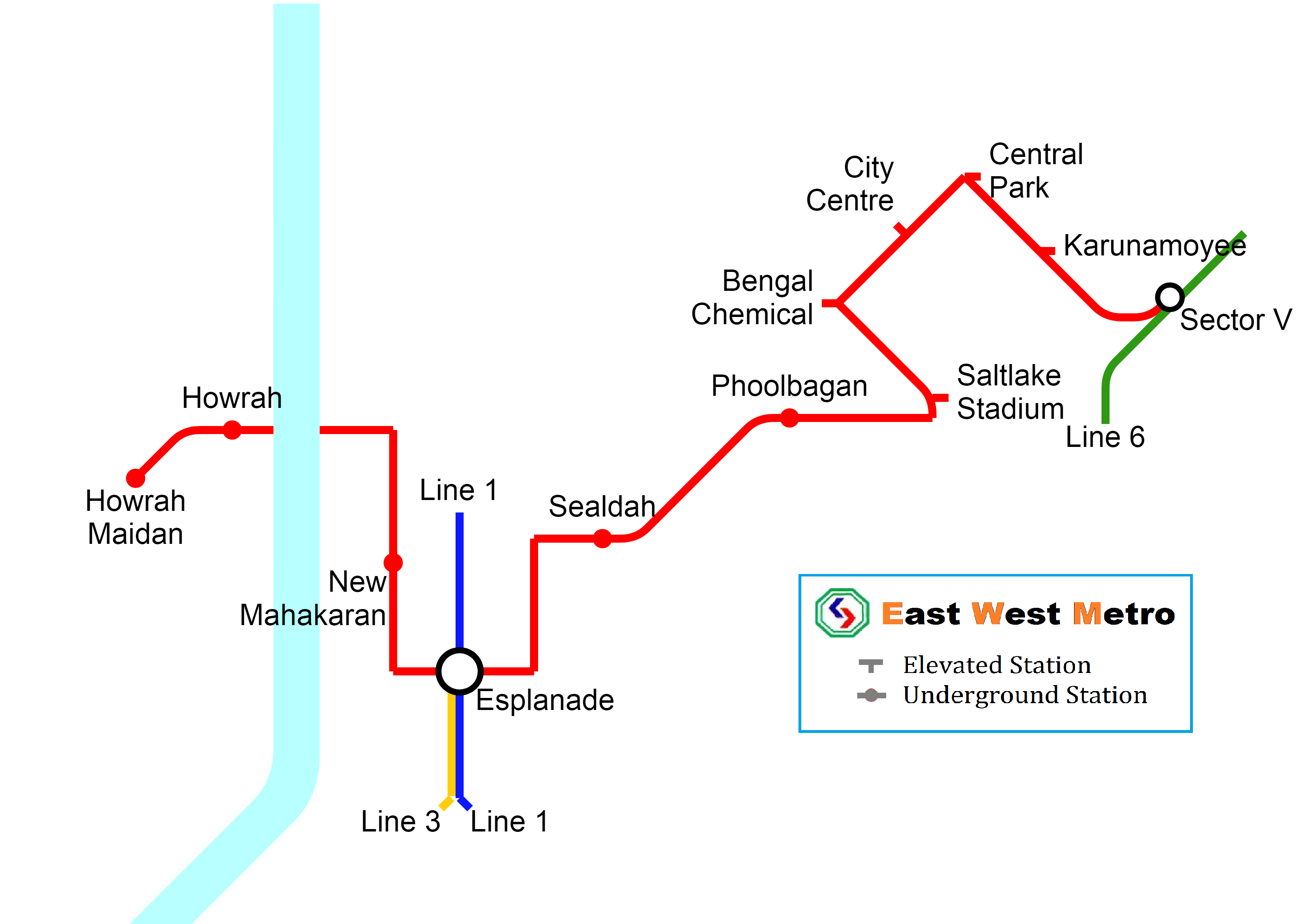 Updated Map of EW metro